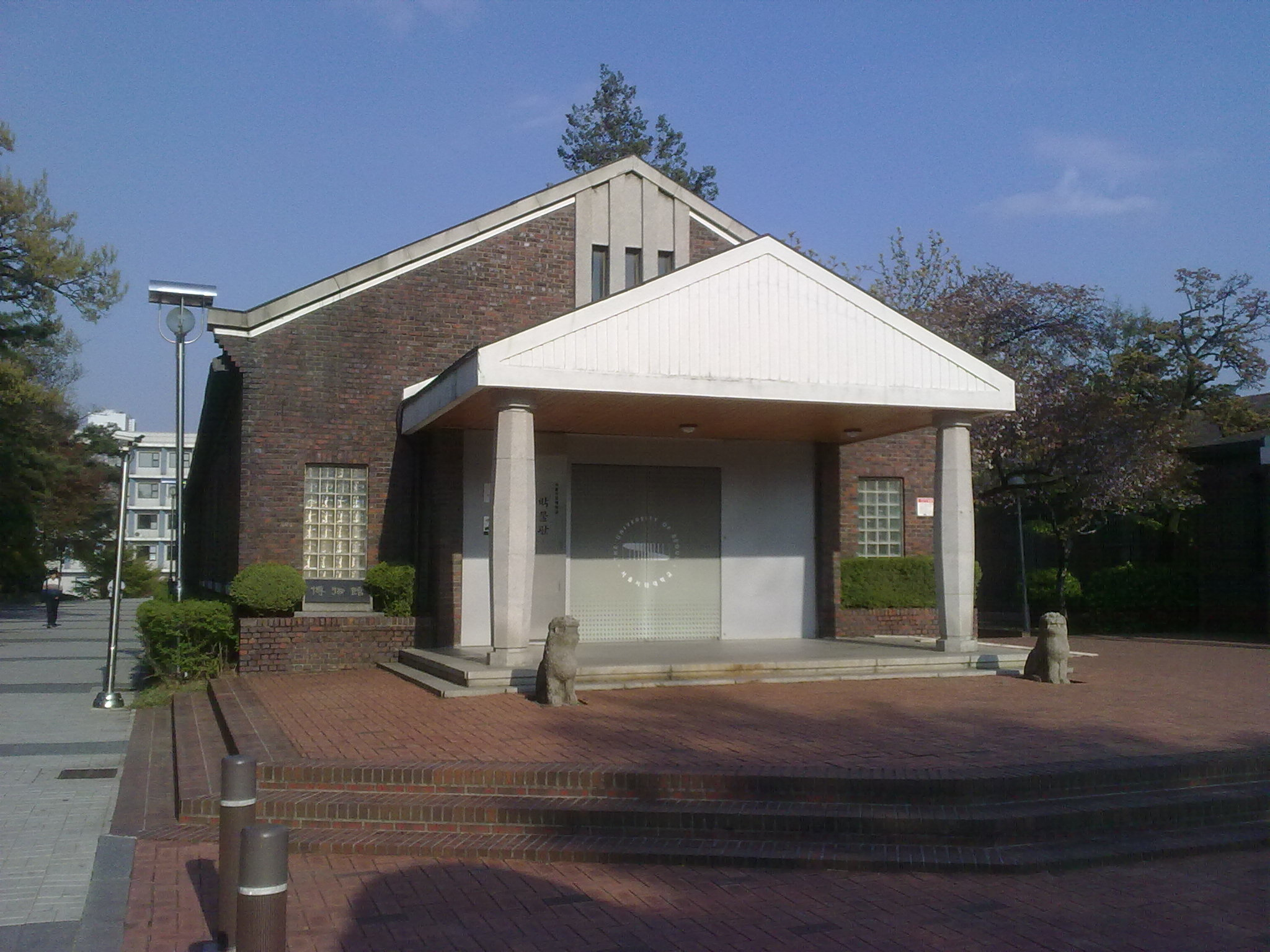 University Museum, built in 1937 as a school building of Gyeongseong Public Agriculture School.